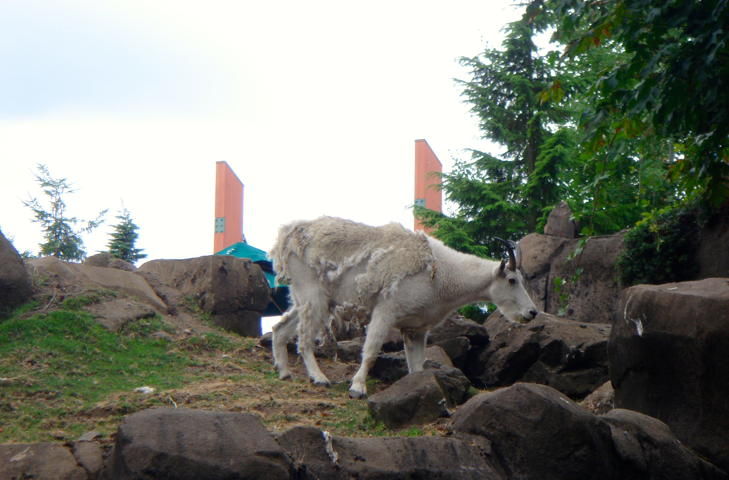 Rocky Mountain Goat (Oreamnos americanus) Oregon Zoo Portland, OR 07.2006